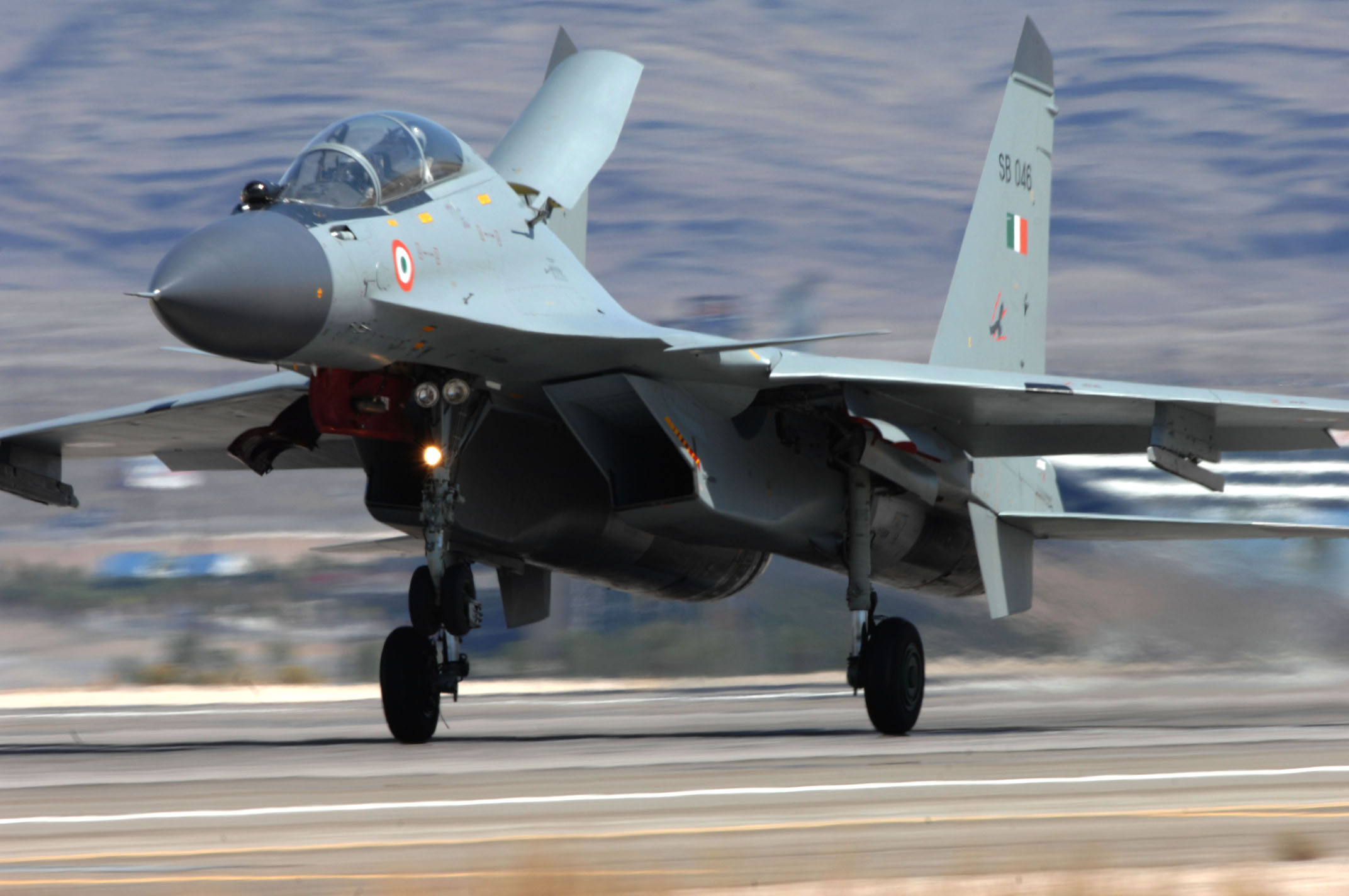 An Indian Air Force SU-30 Fighter lands at Nellis Air Force Base, Nev., August 6, 2008 for participation in Red Flag 08-4. This marks the first time in history that the Indian Air Force has participated in a Red Flag exercise here at Nellis.